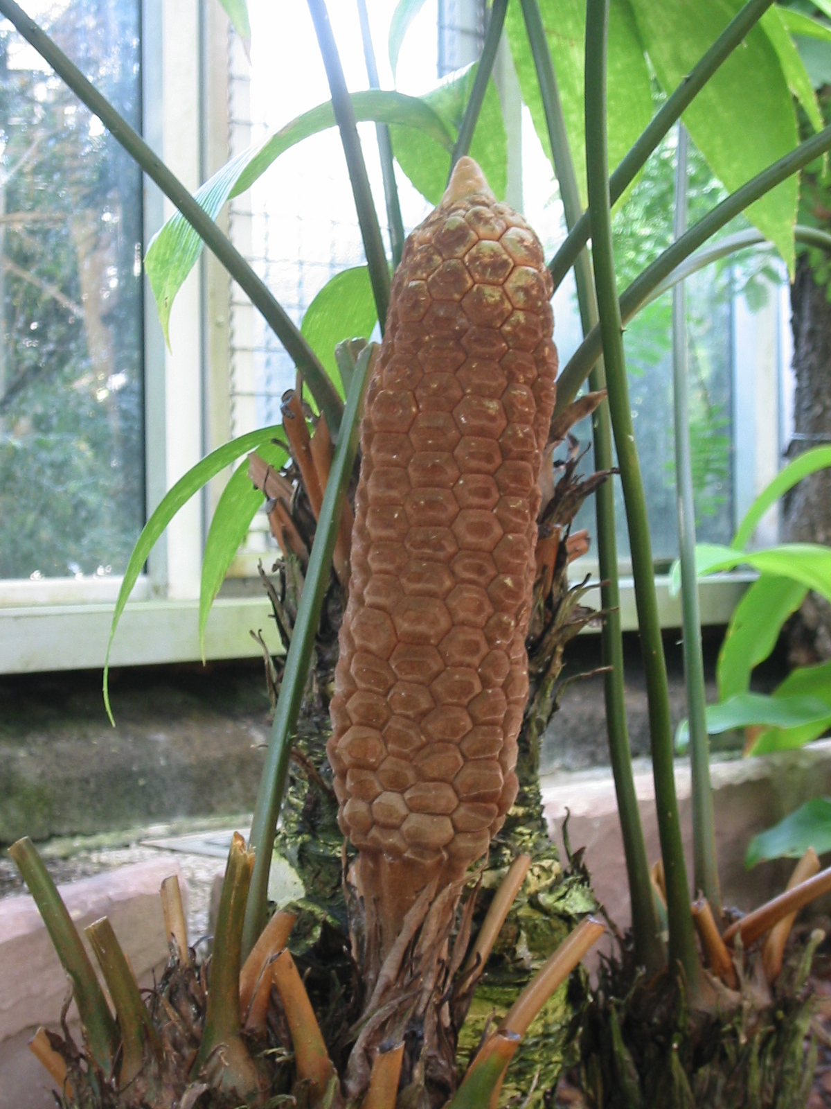 Female cone of Zamia neurophyllidia. Detailed view on 24.04.2010 at Botanical garden Berlin-Dahlem, Germany. (The whole plant is seen here: Zamia_neurophyllidia_(Berlin_2010).JPG)